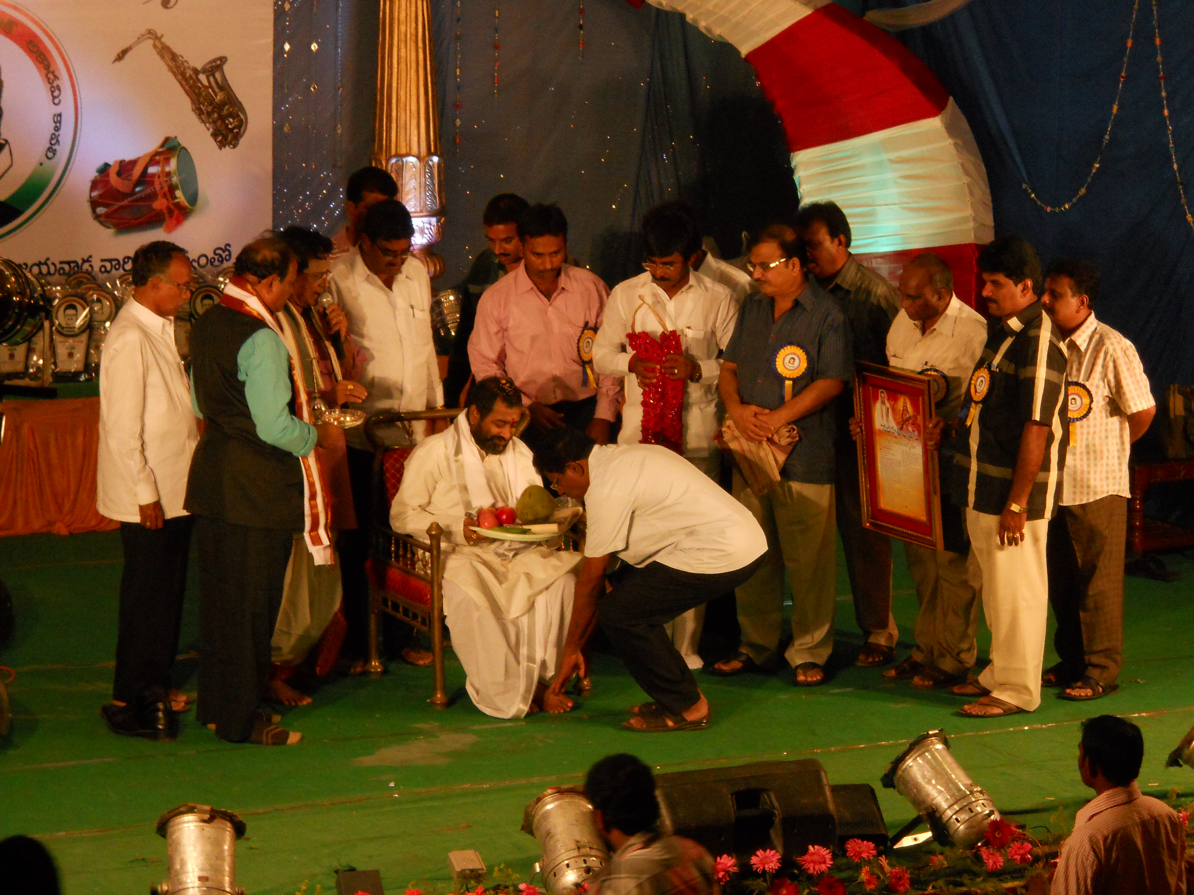 Special Guest Brahmasri Samavedam Shanmukha Sarma at Balasubramanyam Arts and Music Acadamy